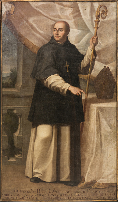 Portrait of Alphonse-Louis du Plessis de Richelieu (1582–1653), French cardinal, archbishop, and Grand Almoner of France.